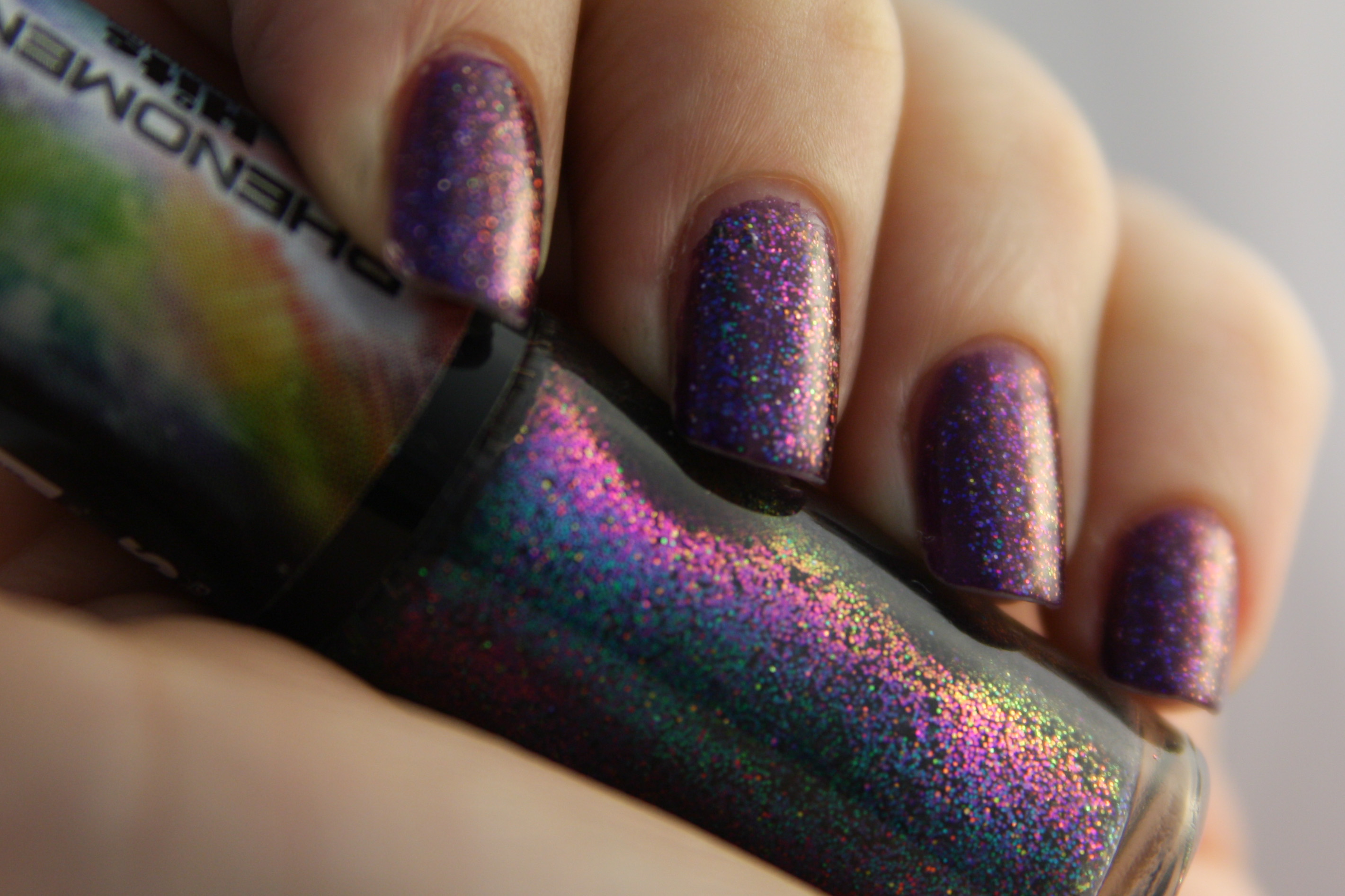 Hits phenomena - Moonbow.